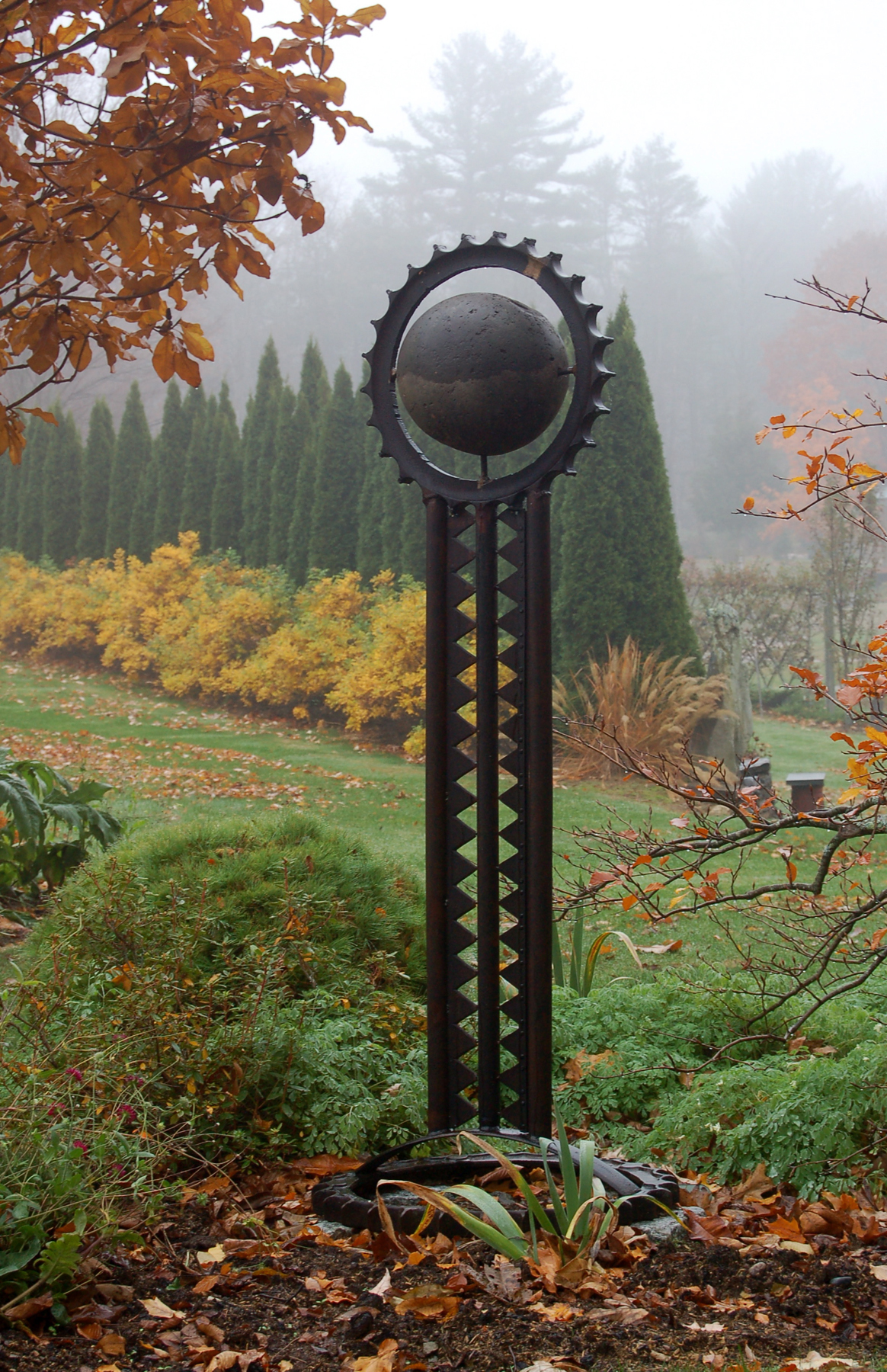 A standing sculpture in front of an Arborvitae hedge.